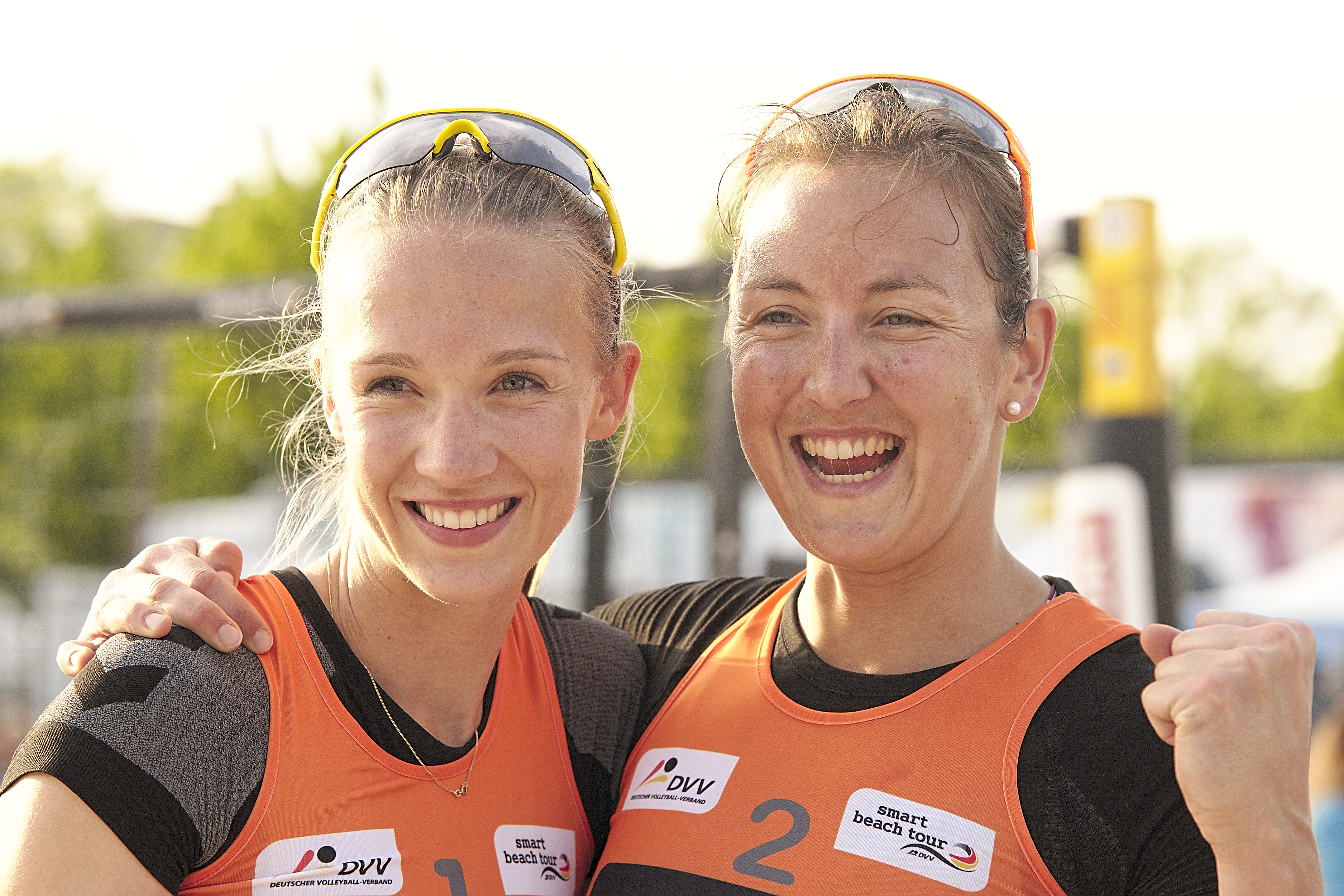 The German beach volleyball players Sandra Ittlinger (left) and Teresa Mersmann (right) at the Smart Beach Tour tournament in Münster 2017.